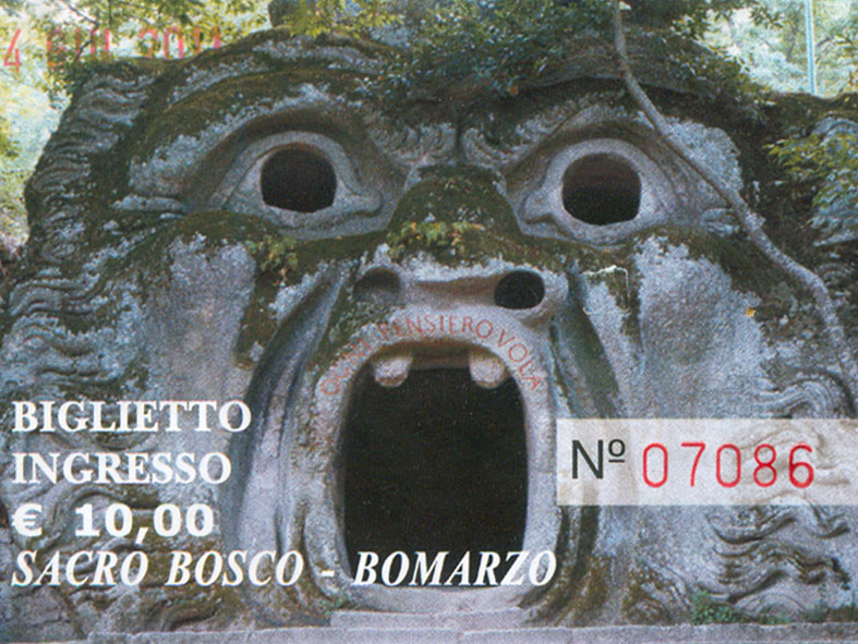 Bomarzo Province of Viterbo, Italy, Parco dei Mostri, Ticket